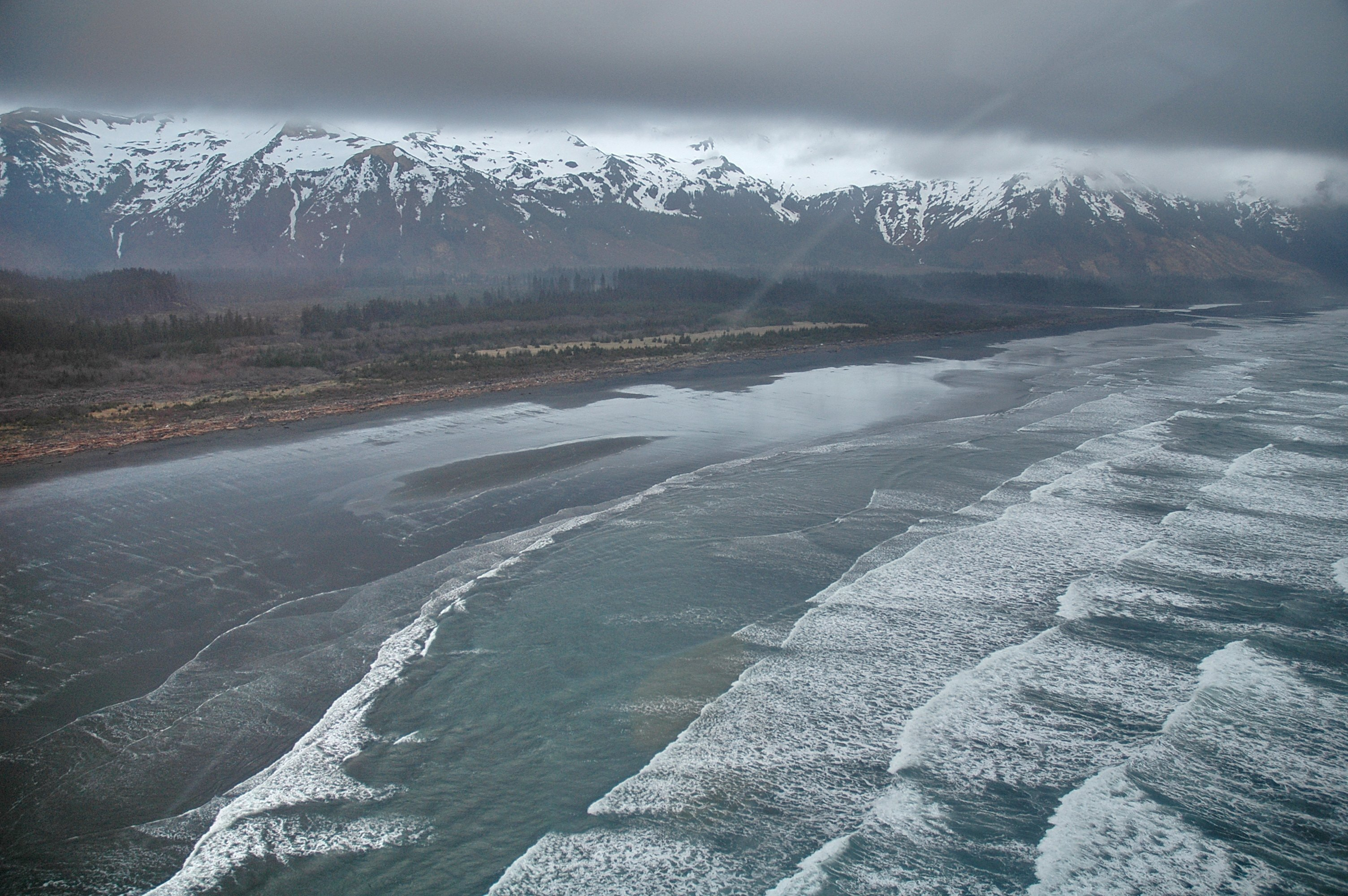 Aerial photograph. A dark sand beach at low tide with what would seem to be the eternal roar of the surf attacking the shoreline. Alaska, Prince William Sound, Montague Island.